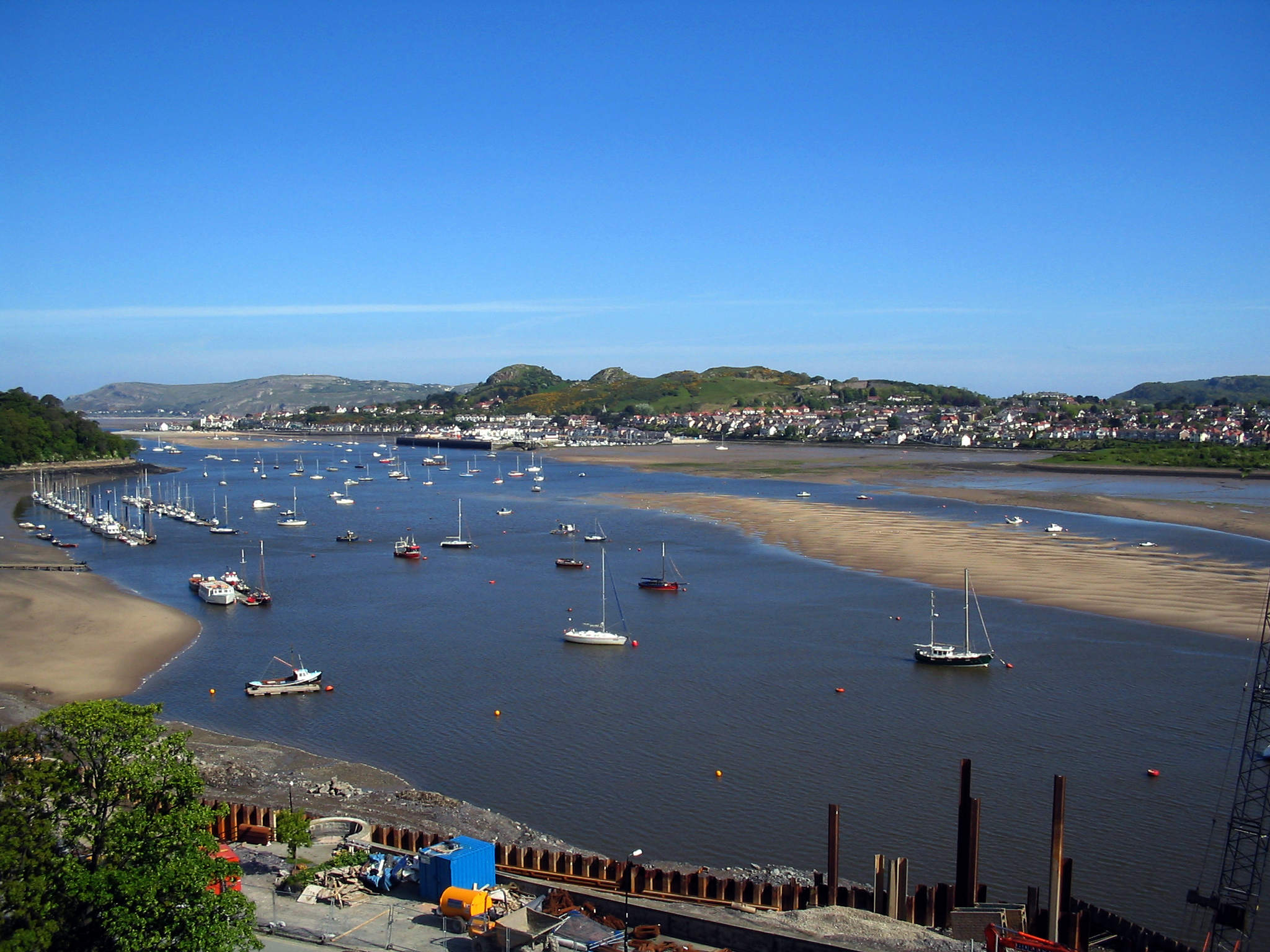 The River Conwy as seen from a tower in Conwy Castle. The river is at low tide; looking closely you can see a few boats grounded on the sandbar in the middle. David Benbennick took this photo on May 14, 2005 at 10:19 AM (9:19 UTC).